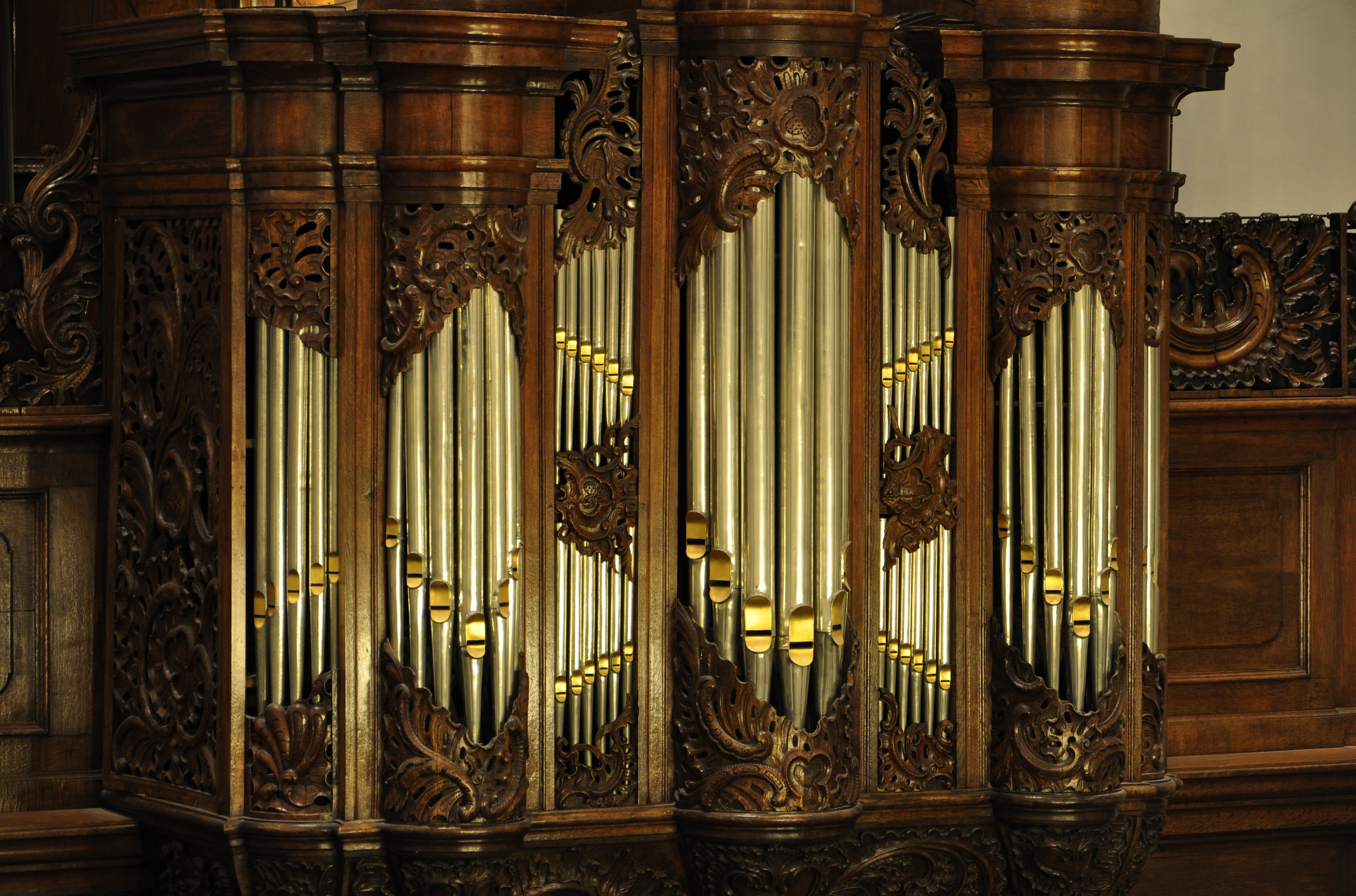 Organ at Great Church at Nijkerk (NL)